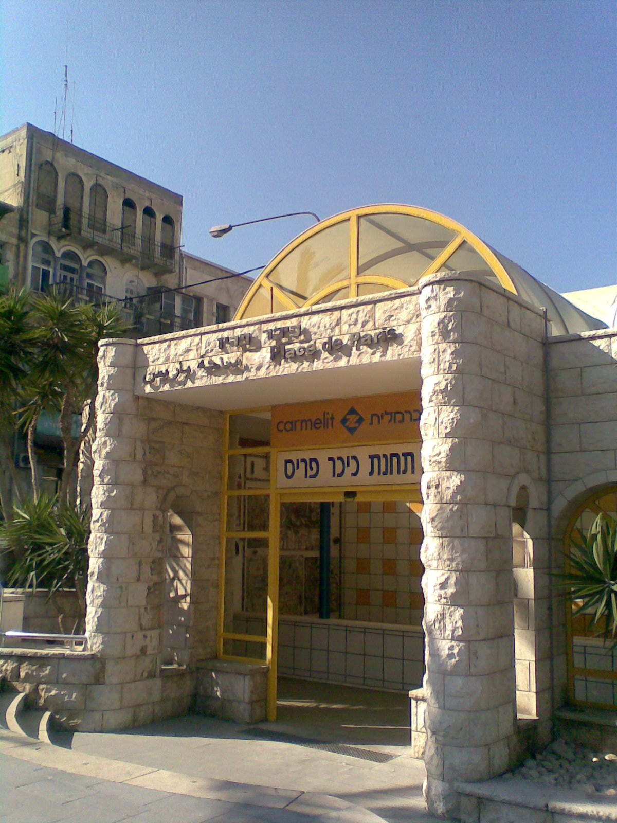 Entrance of the Carmelit subway on Place de Paris (Haifa)